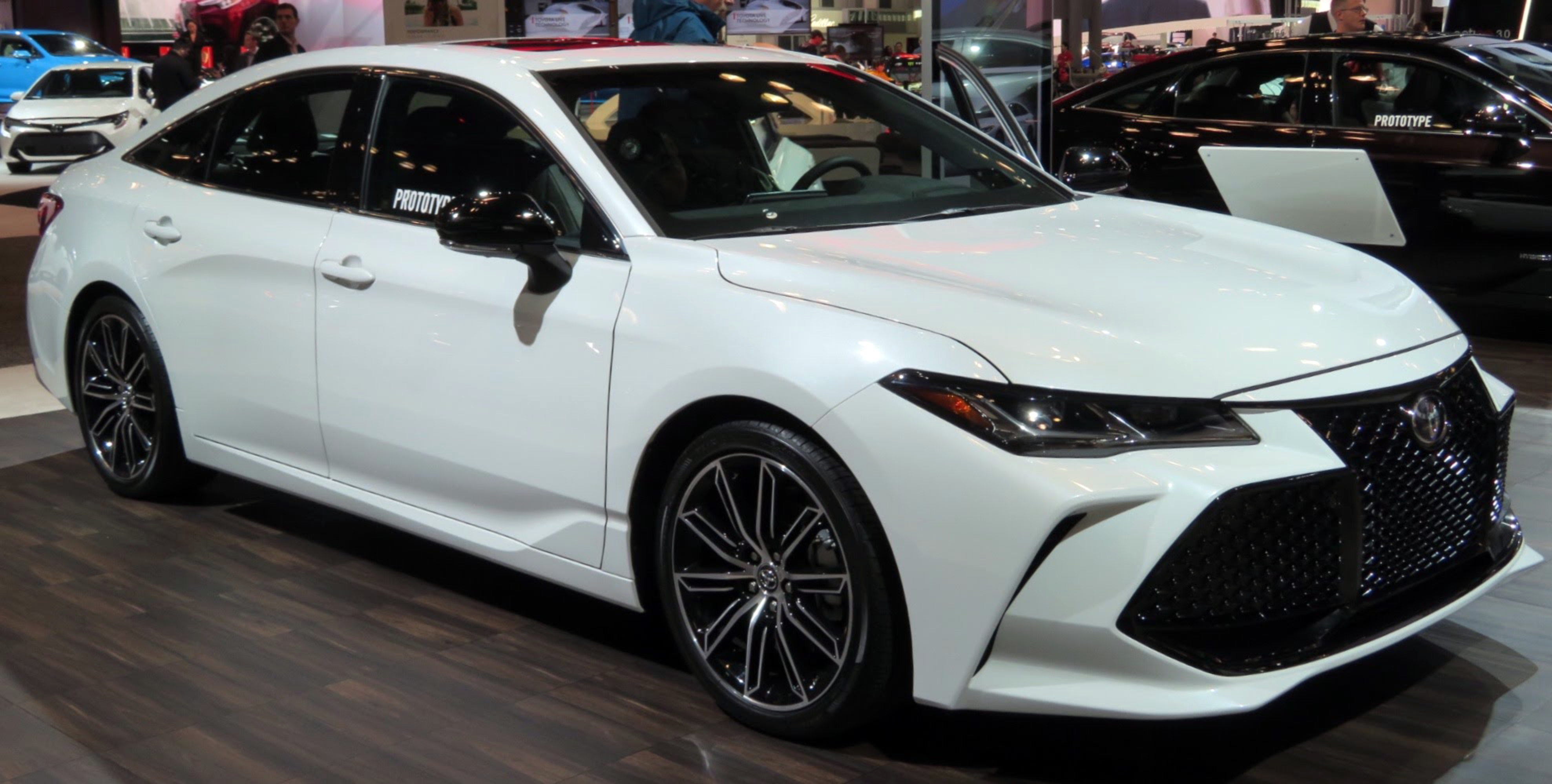 In New York International Auto Show, at Manhattan, New York